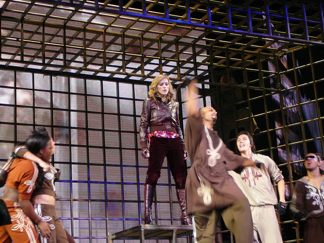 Photo taken at the concert